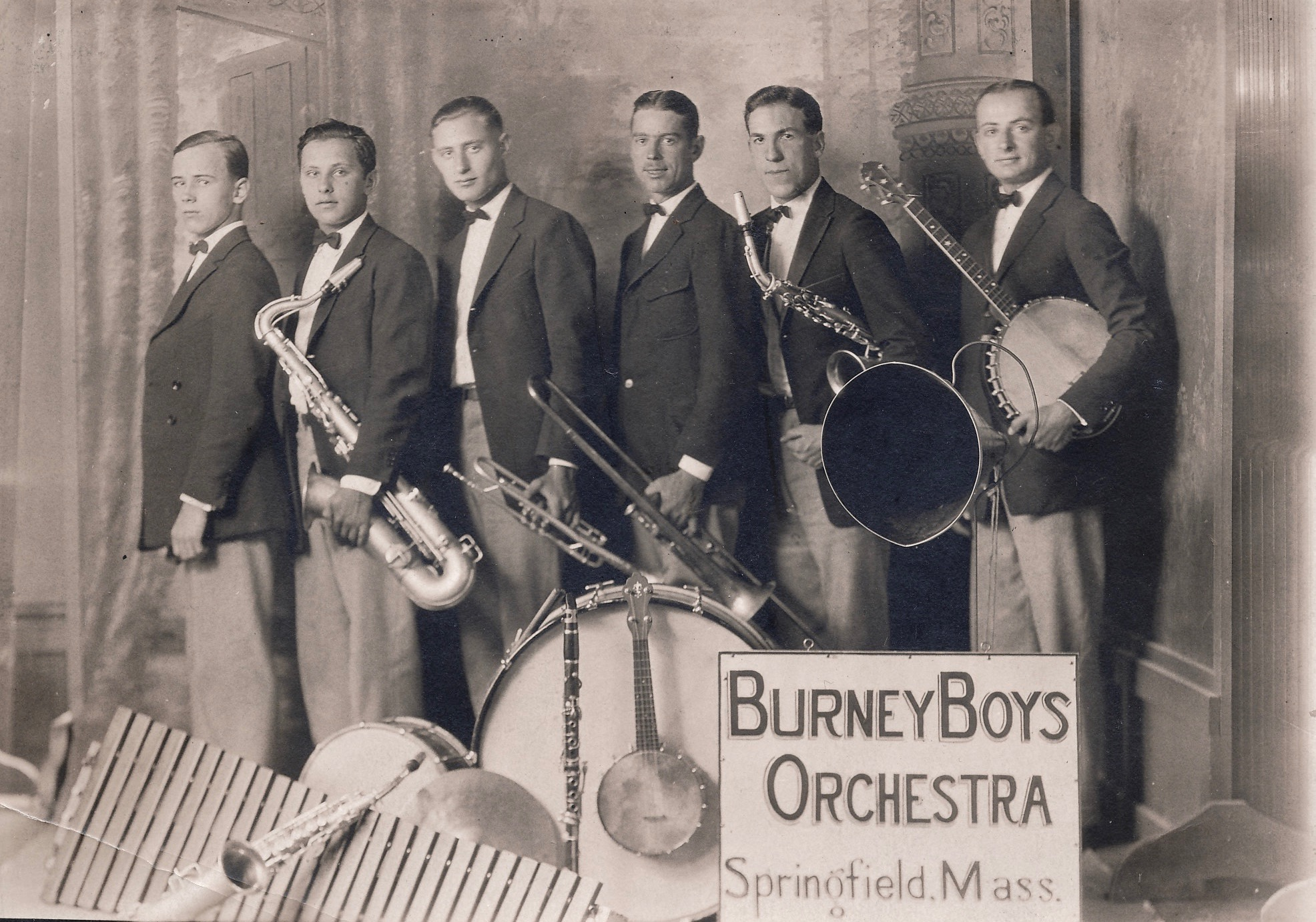 Winston Sharples (far left) in Burney Boys Orchestra, circa 1926.